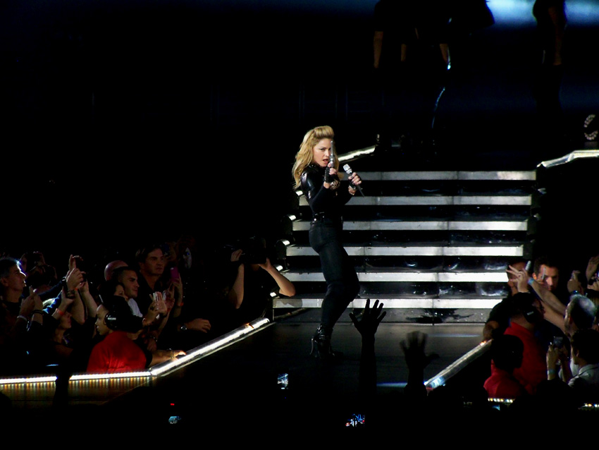 Madonna's MDNA Tour at Staples Center